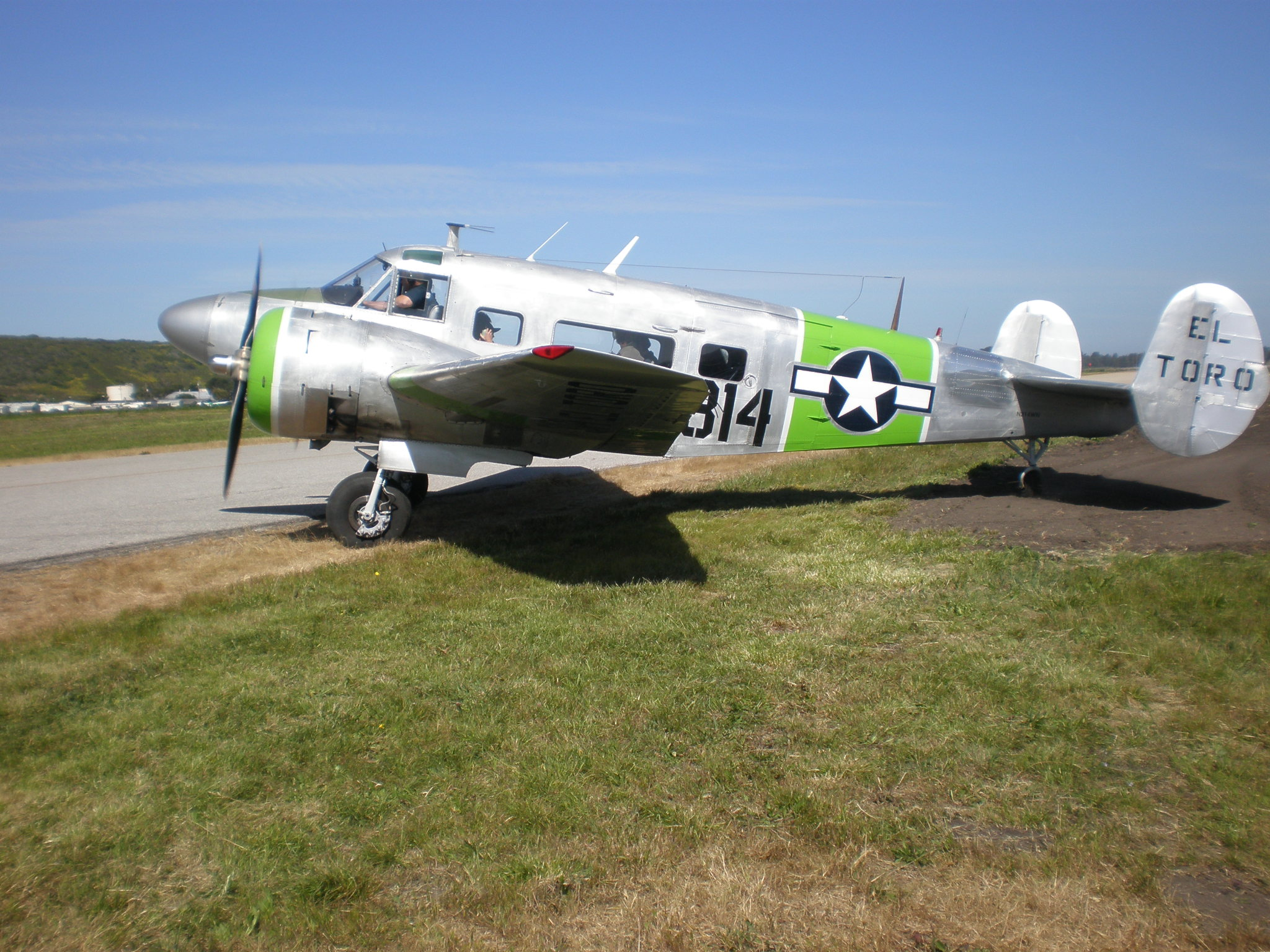 A Beechcraft C-45H Expeditor taxis for takeoff at the Pacific Coast Dream Machines vehicle show at the Half Moon Bay Airport in Half Moon Bay, California.